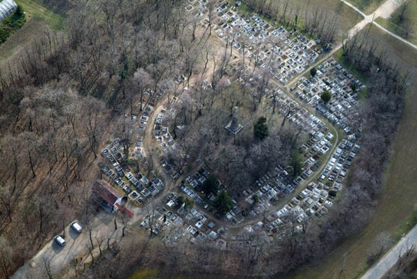 Agárd, Hungary, aerial photography